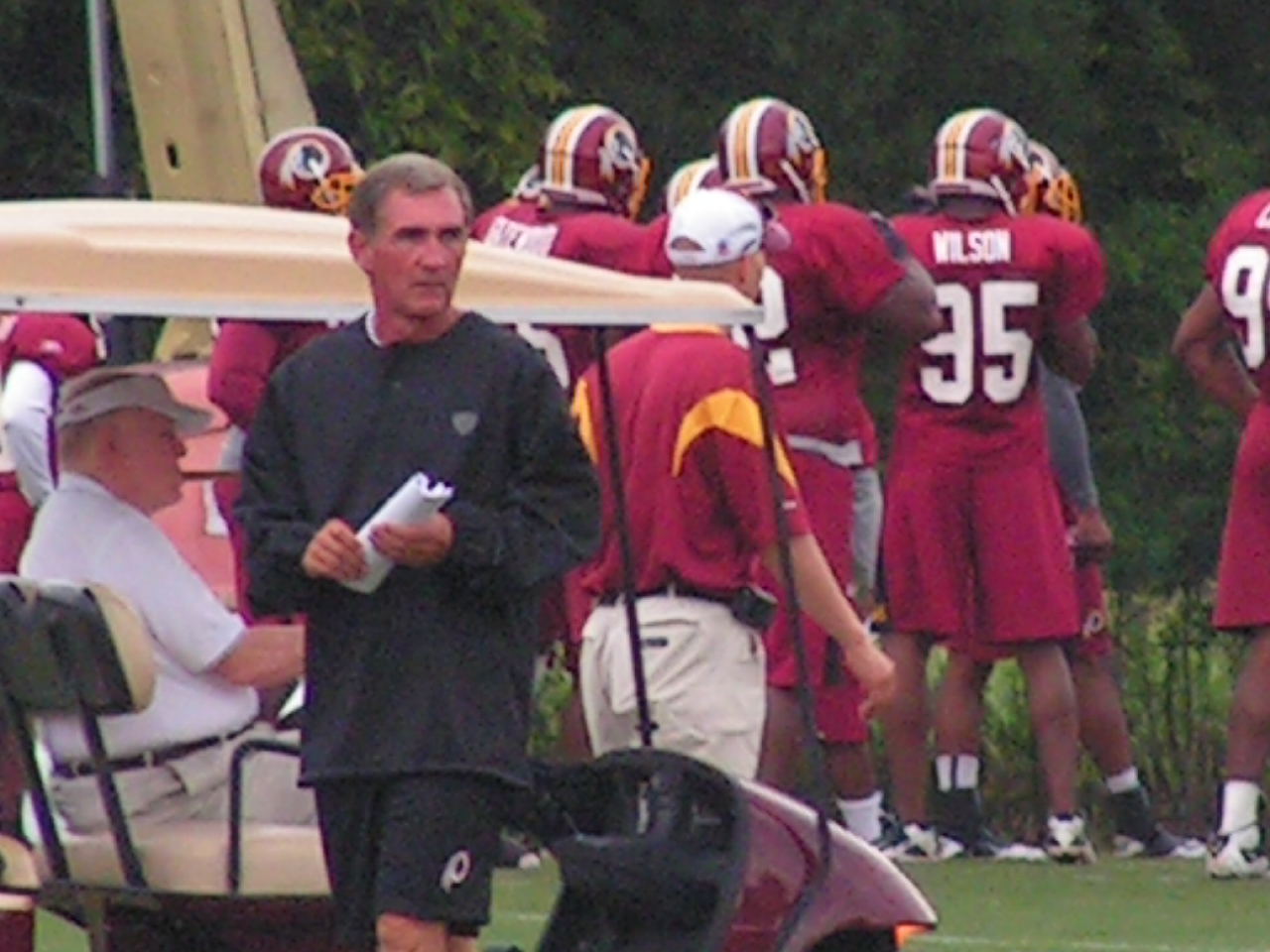 Mike Shanahan at Redskins Park during an open practice. Contributor was a VIP fan at the camp that day.